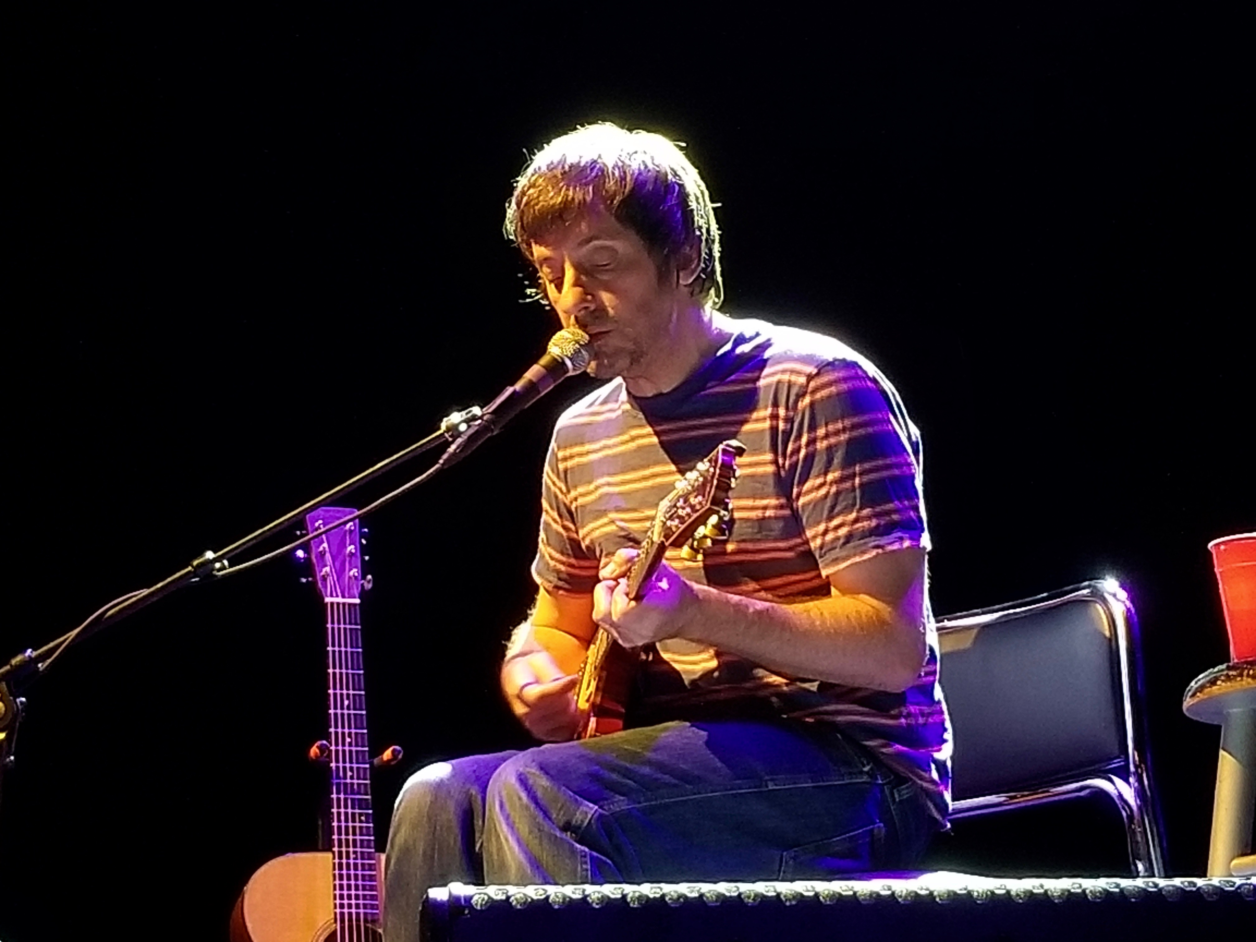 Graham Coxon performing at Park West, Chicago for his 2018 North American Tour, 21 September 2018